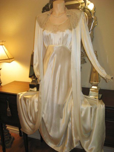 Satin naightgown and robe